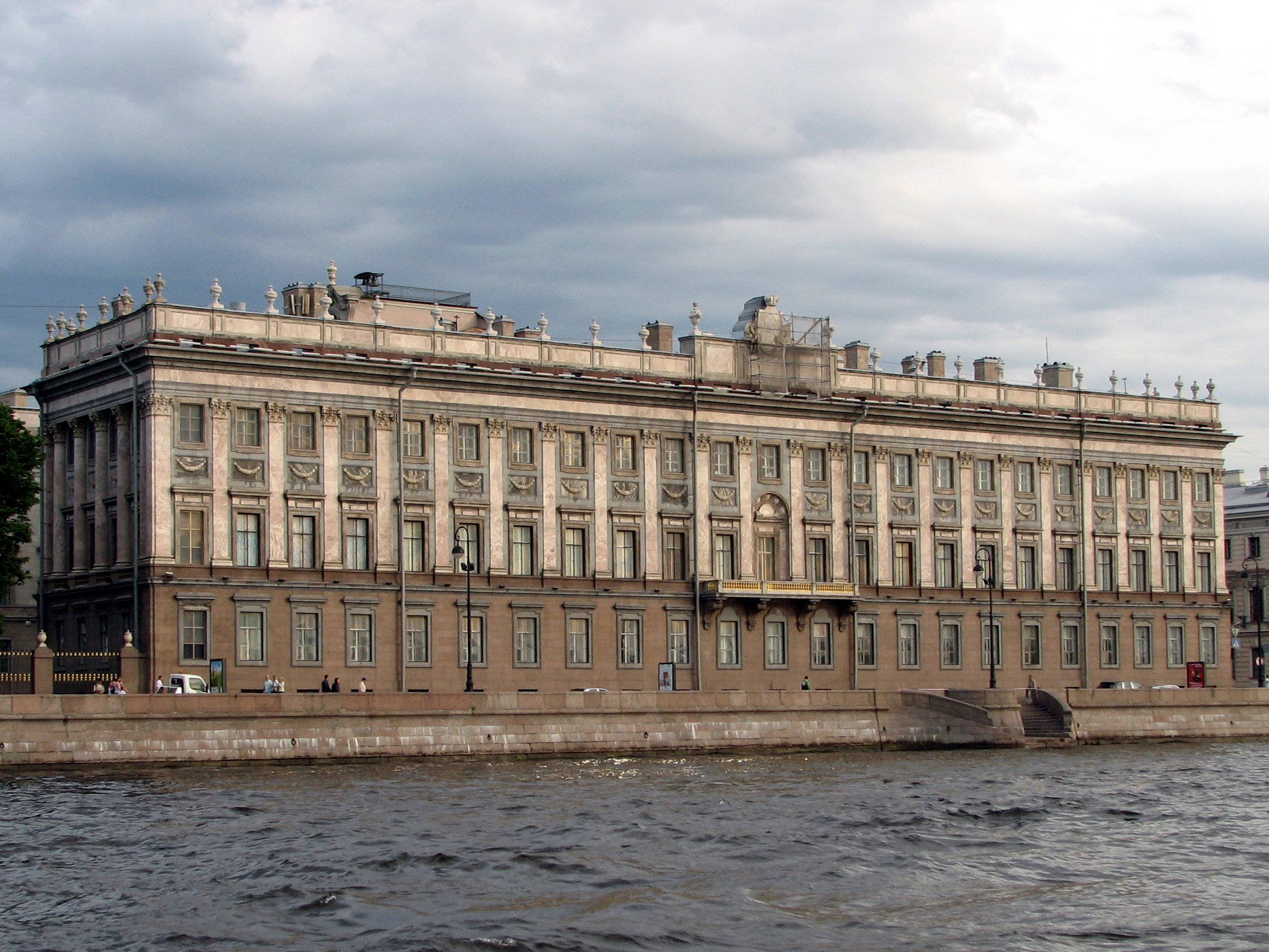 Saint Petersburg (Russia), Marble Palace. View from Neva river on the Marble palace.